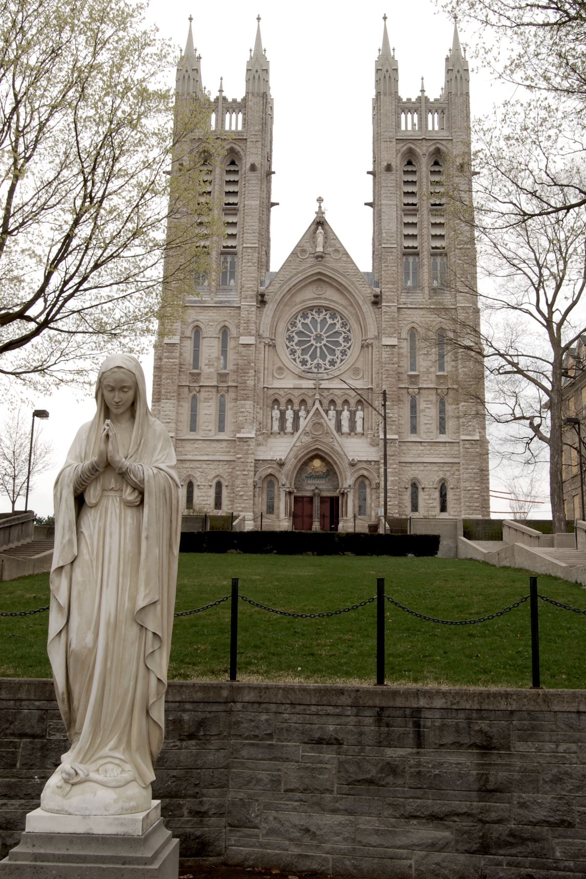 The Church Of Our Lady Immaculate in Guelph, Ontario, Canada. Shot during the TPMG outing to Doors Open in Guelph (but this location was not part of Doors Open).